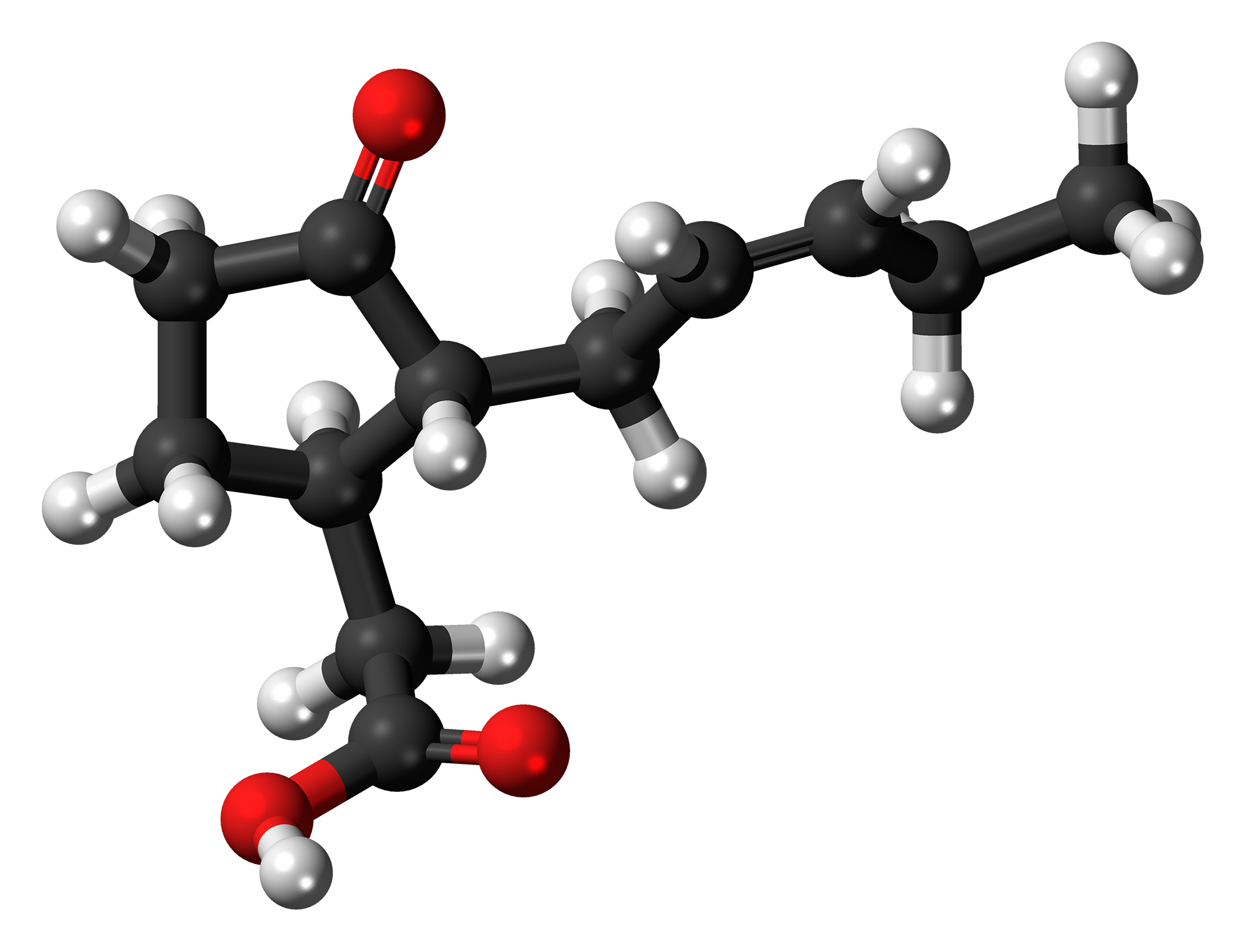 Ball-and-stick model of the jasmonic acid molecule, a plant hormone. Color code: Carbon, C: black Hydrogen, H: white Oxygen, O: red